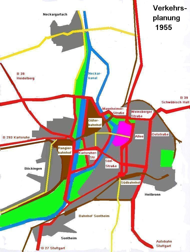 Heilbronn_Verkehrsnetz_und_Verkehrsplanung_1955.PNG